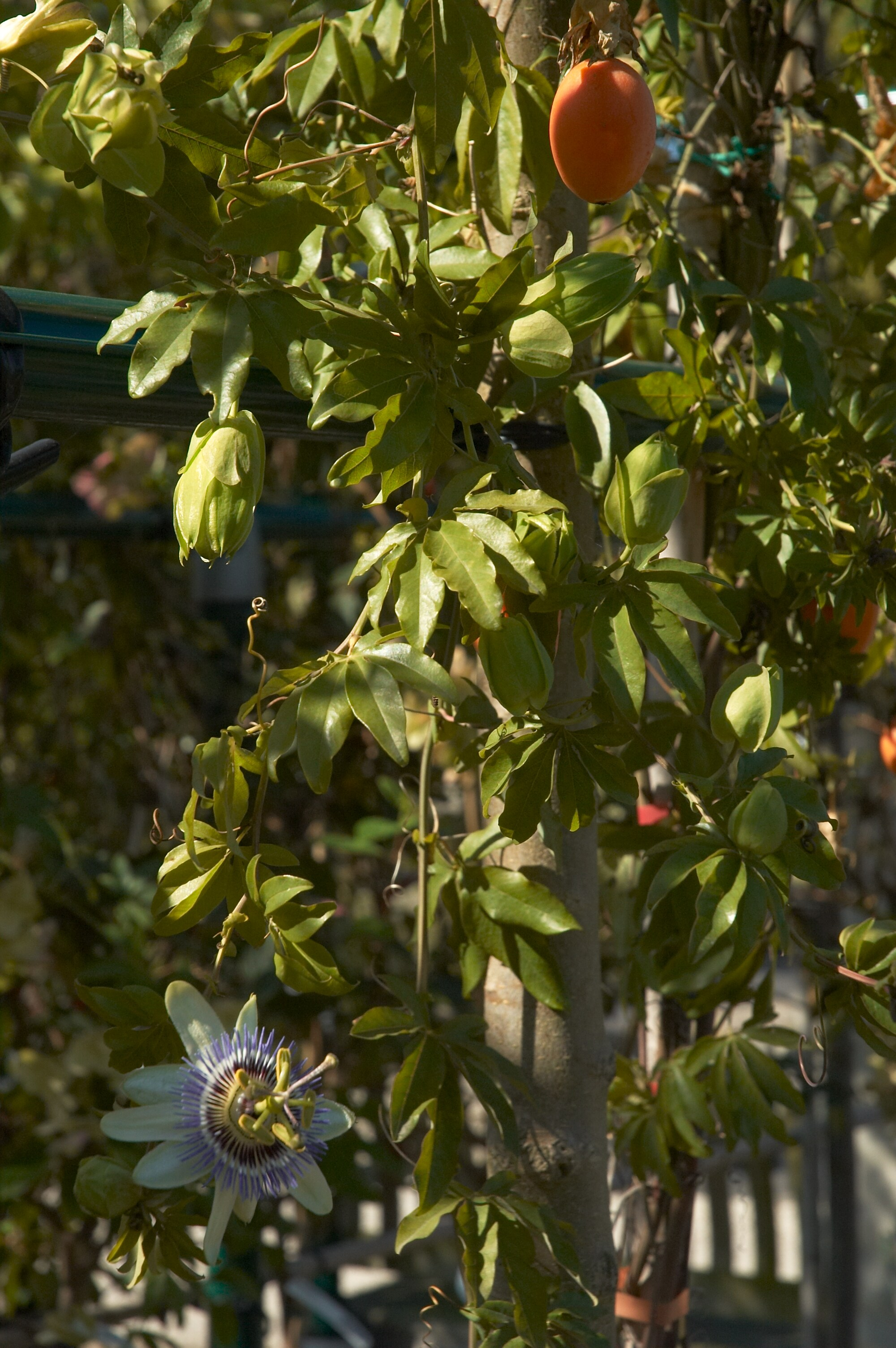 Passiflora caerulea. This photo has been taken in Belgium.